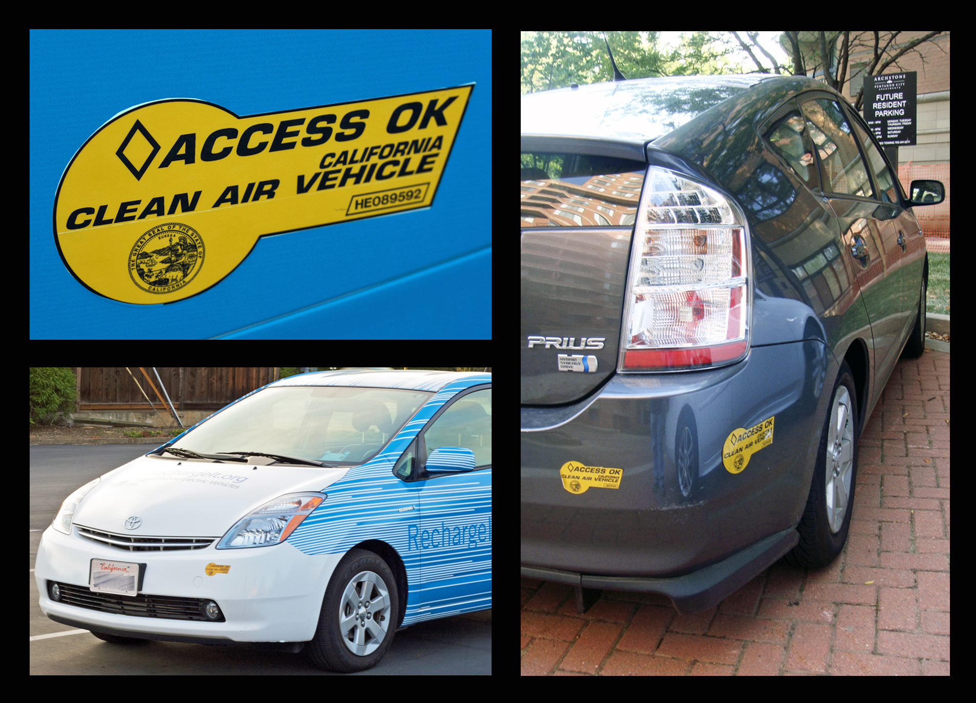 Collage of California's bumper stickers used to identify clean air vehicles to gain free access to HOV lanes: decal zoom in, front and rear bumper views. Lower left is a Prius Plug-in of RechargeIT project, and right side is a conventional Prius